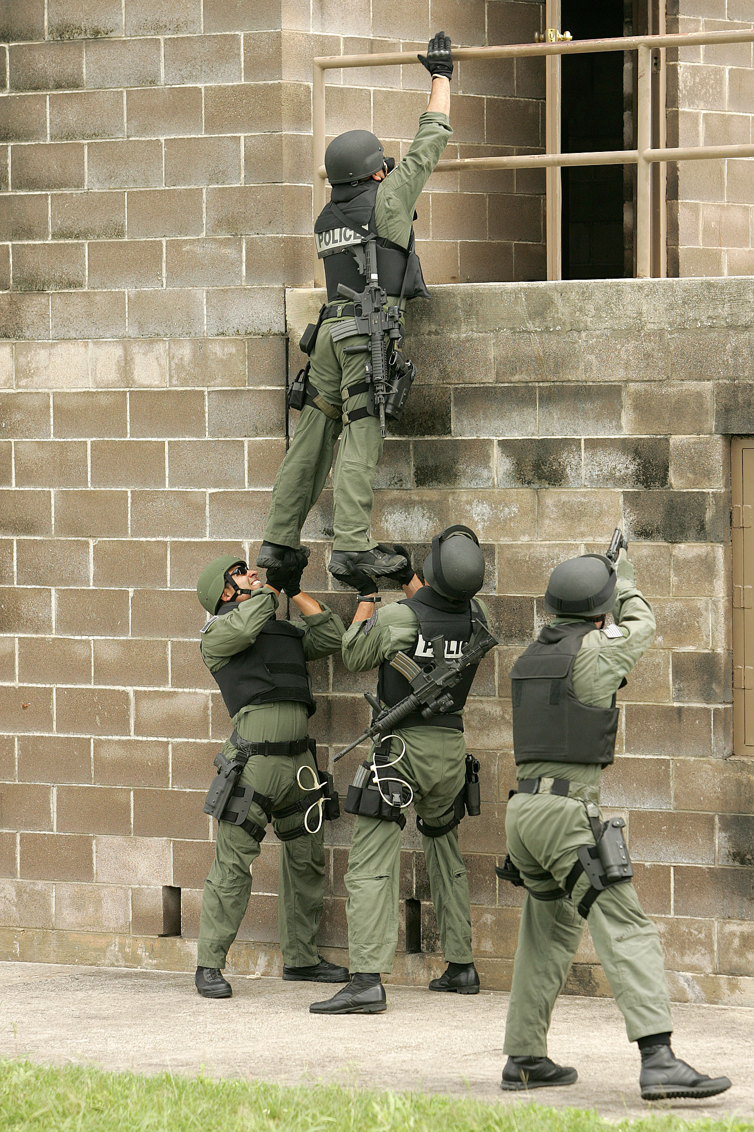 Members of the 37th Training Wing's Emergency Services Team use a team lift technique to enter a target building during training May 4 at Lackland Air Force Base, Texas. A five-man team consisting of 1st Lt. Stephen Addington, Senior Master Sgt. Matt Harmatuk, Tech. Sgt. Jason Attinger, Tech. Sgt. Justin King and Senior Airman Andrew Caro competed in the Southeast Texas SWAT Competition April 24 in Beaumont, Texas. Lackland AFB's team took a first place in the competition.